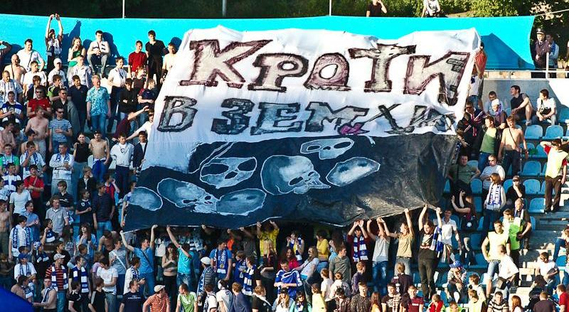 Banner fans of "Dynamo" Kiev - "Moles under the ground" Банер уболівальників Динамо Київ - Кроти під землю